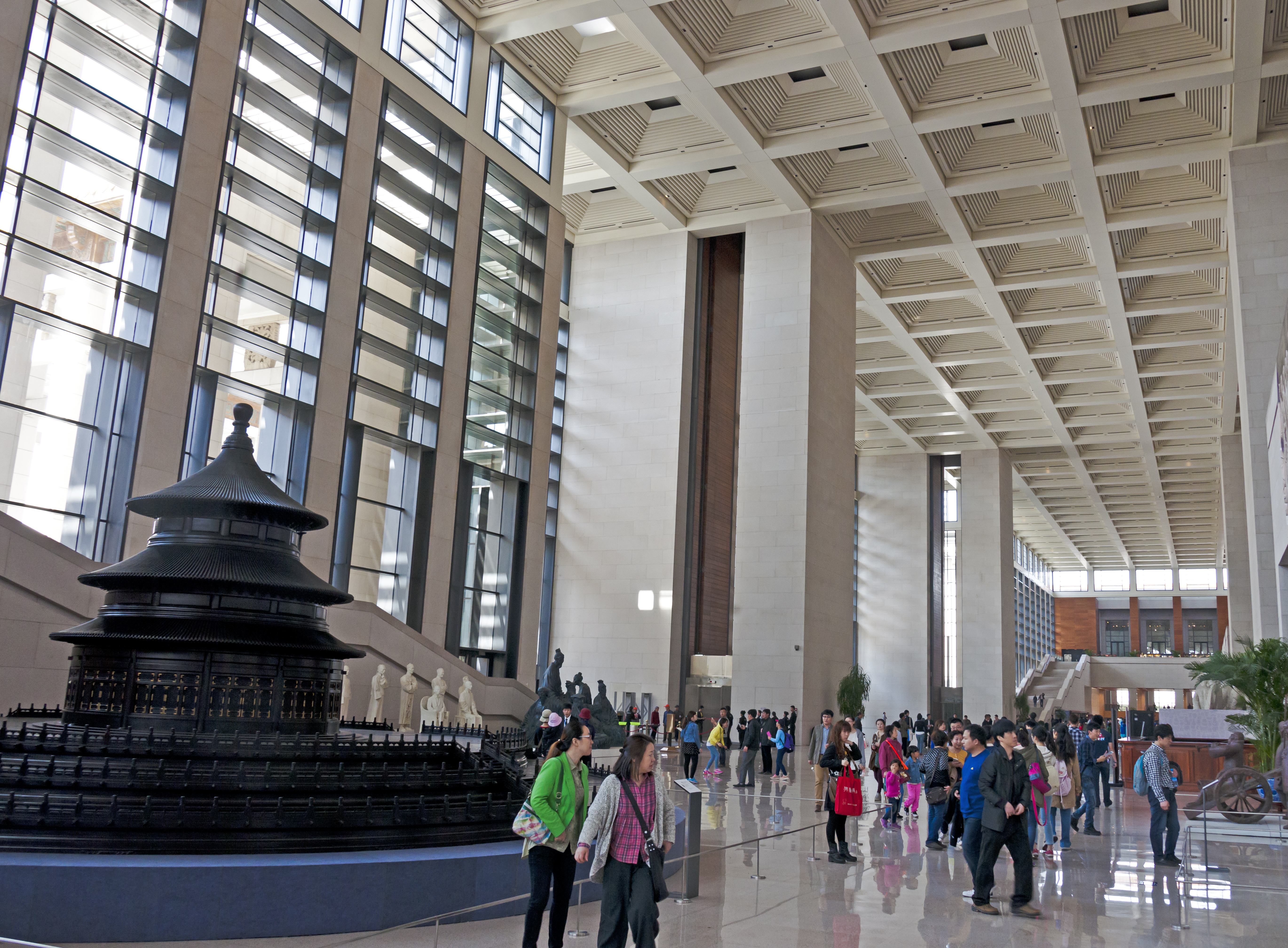 National Museum of China, view from south end of front foyer, with model of Temple of Heaven at left